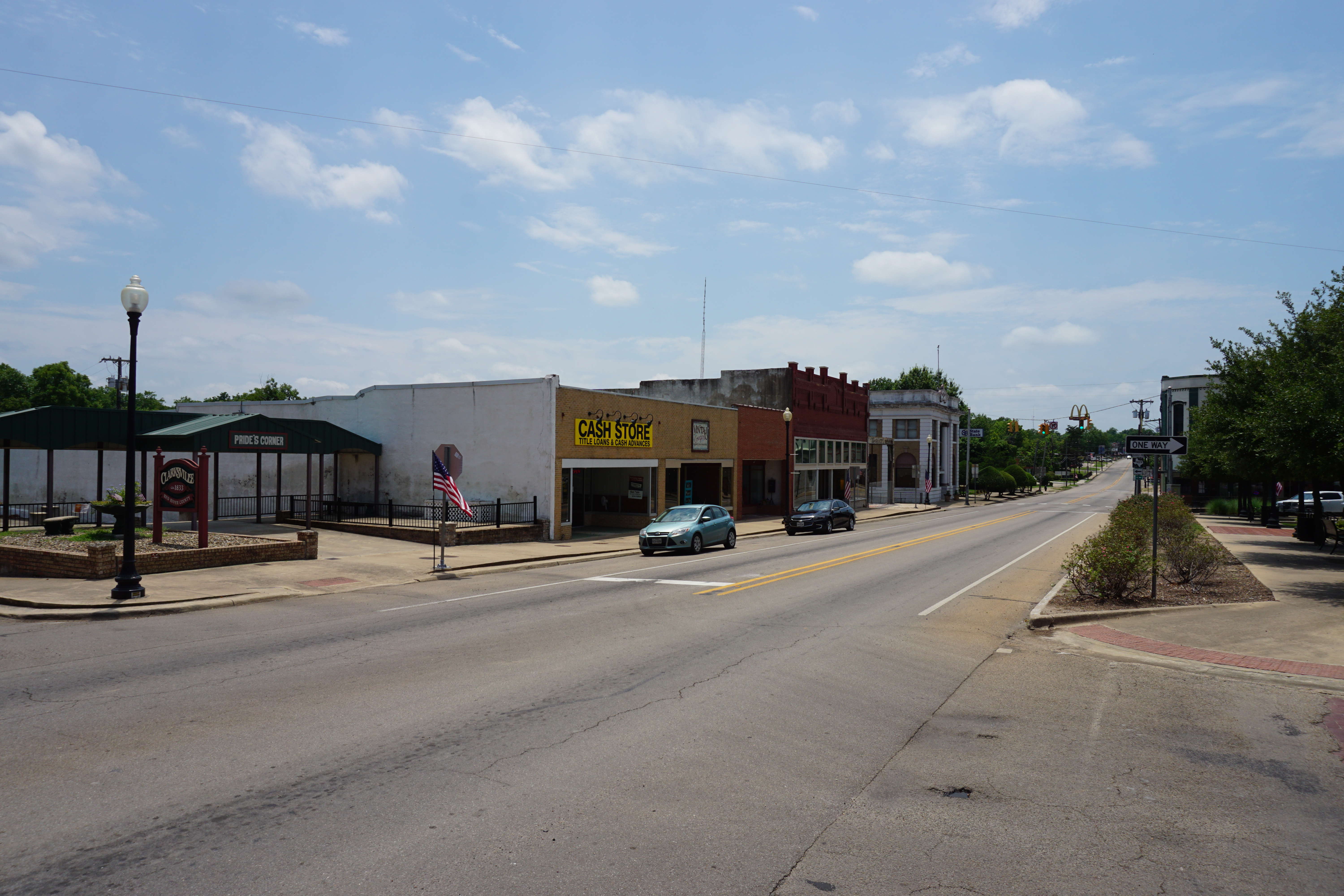 Main Street in Clarksville, Texas (United States).